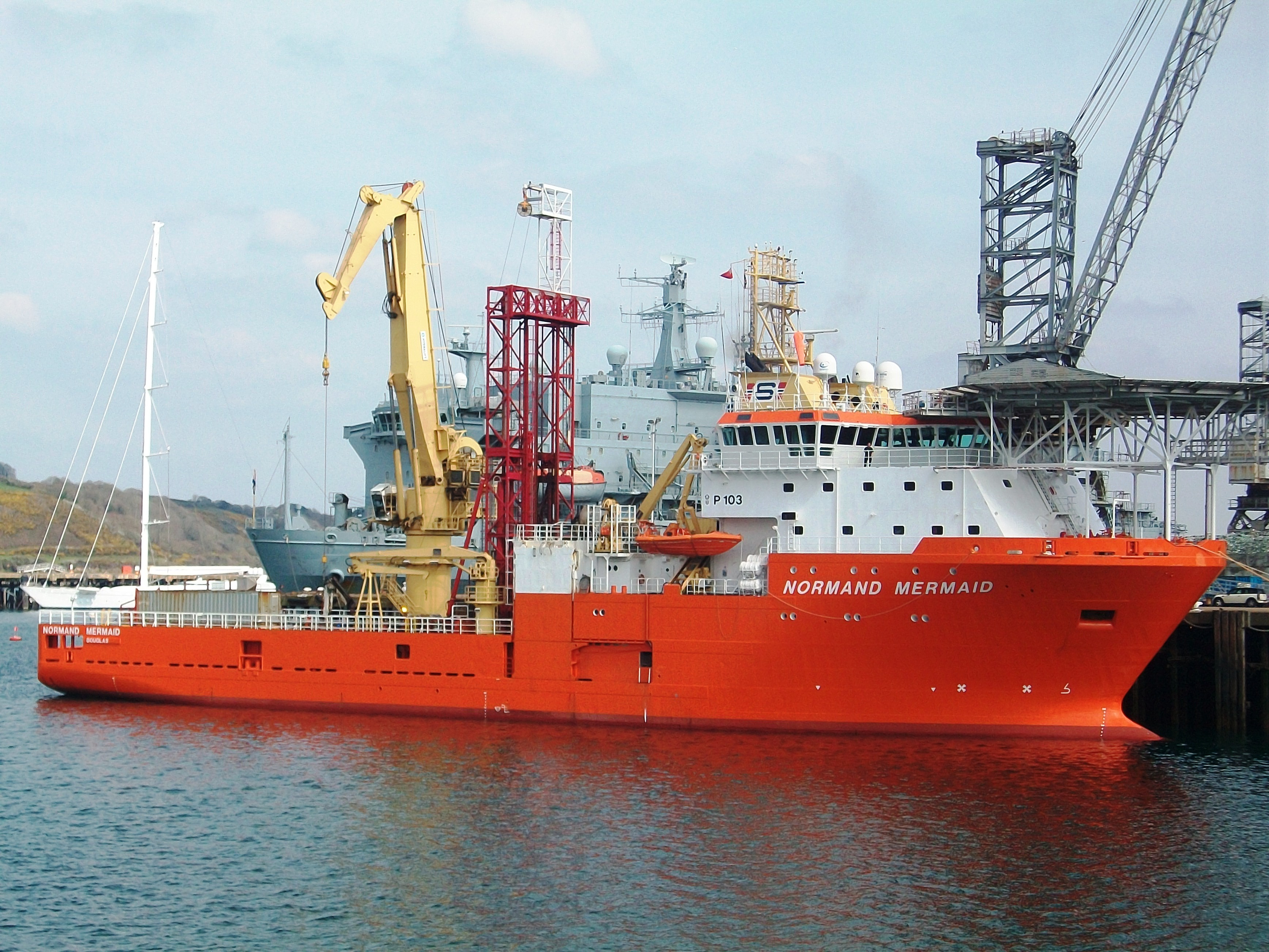 Docked in Falmouth in 2012